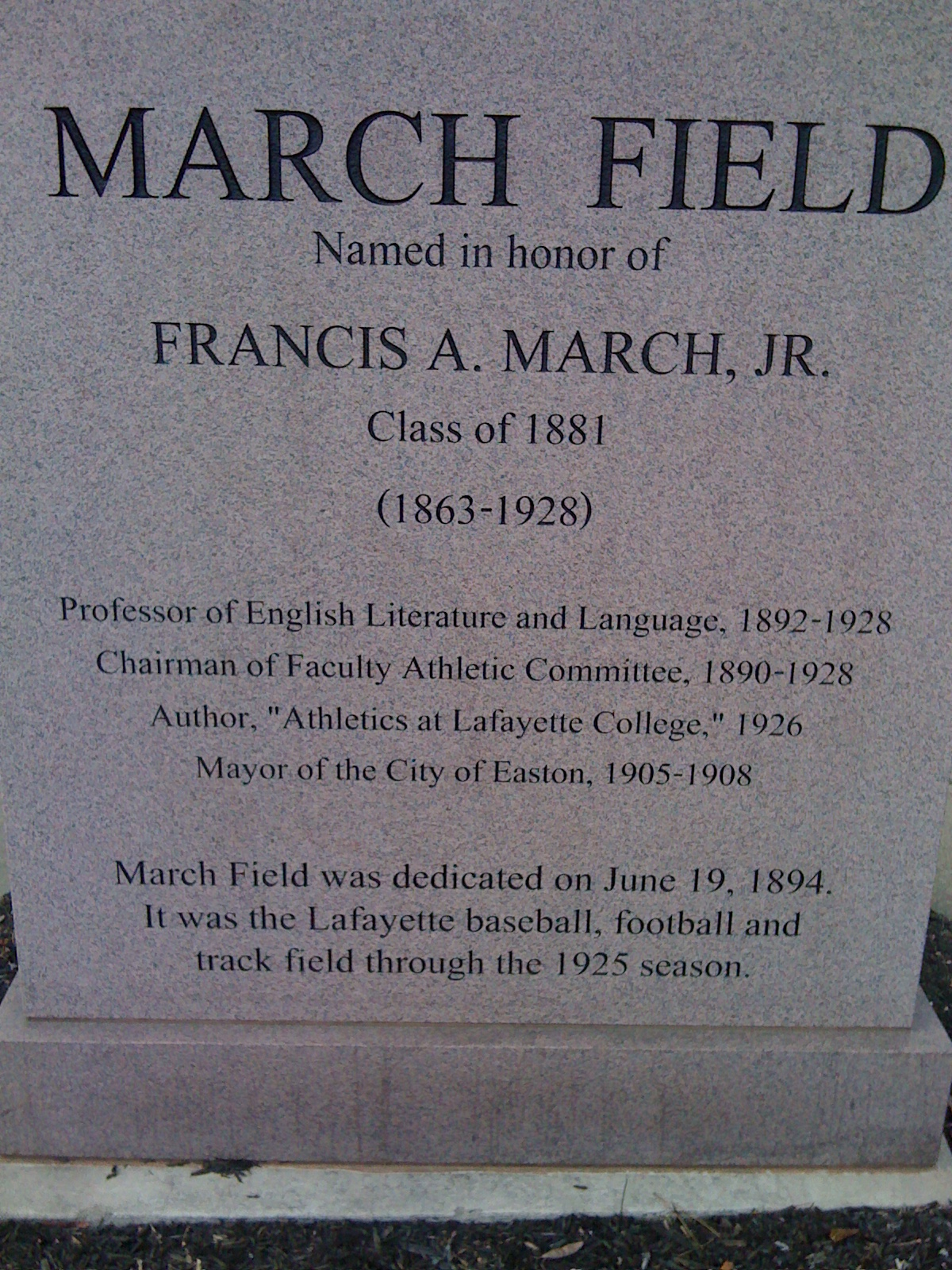 A stone marker stands on March Field at Lafayette College that identifies the Field's namesake honoree and his contributions to the College, as well as the role of the Field in Lafayette College history.